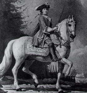 Portrait of Catherine II on a horse in men's clothing, probably an engraving modeled on the c. 1762 painting by V. Eriksen